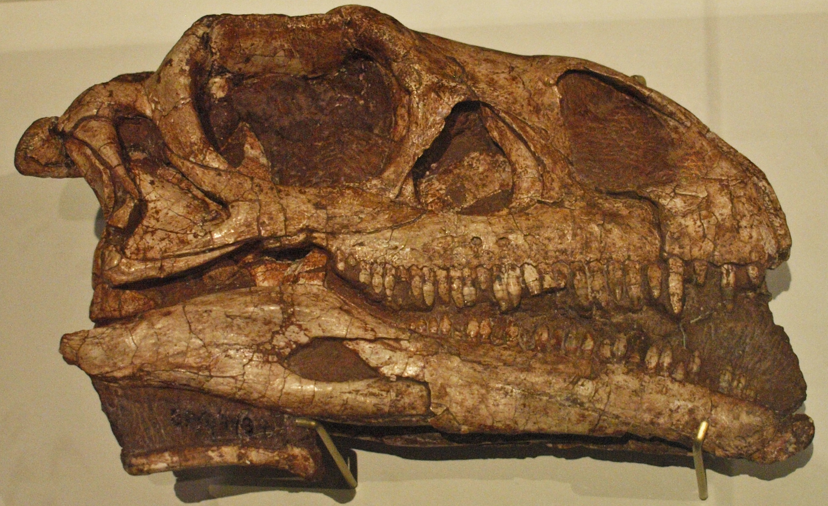 Massospondylus carinatus Fossil Skull on Display at the Royal Ontario Miseum (BP-I-4934)